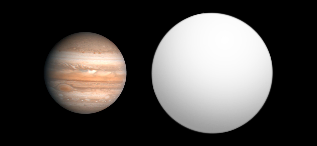 Comparison of best-fit size of the exoplanet OGLE-TR-182 b with the Solar System planet Jupiter, as reported in the Extrasolar Planets Encyclopaedia[1] as of 2010-10-03. ↑ Extrasolar Planets Encyclopaedia (2010-09-30). Retrieved on 2010-10-03.